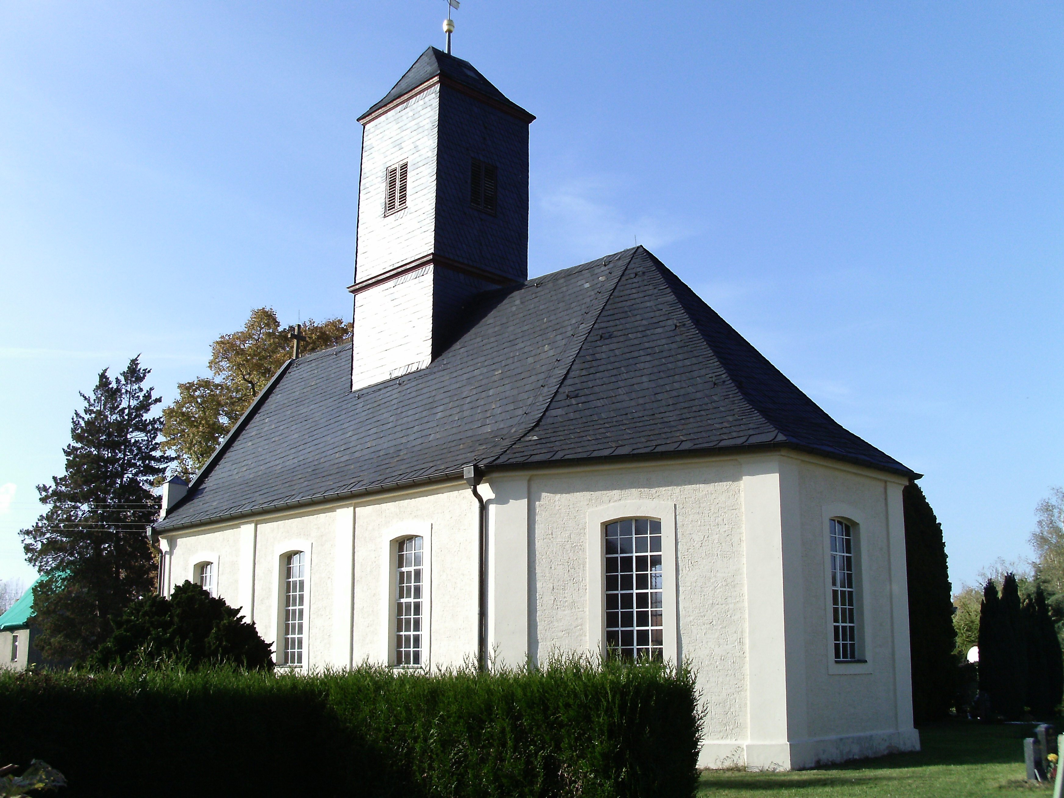 Church in Espenhain (Leipzig district, Saxony)